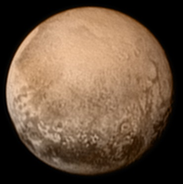 A composite image of Pluto from 11 July showing high-resolution black-and-white LORRI images colorized with Ralph data.